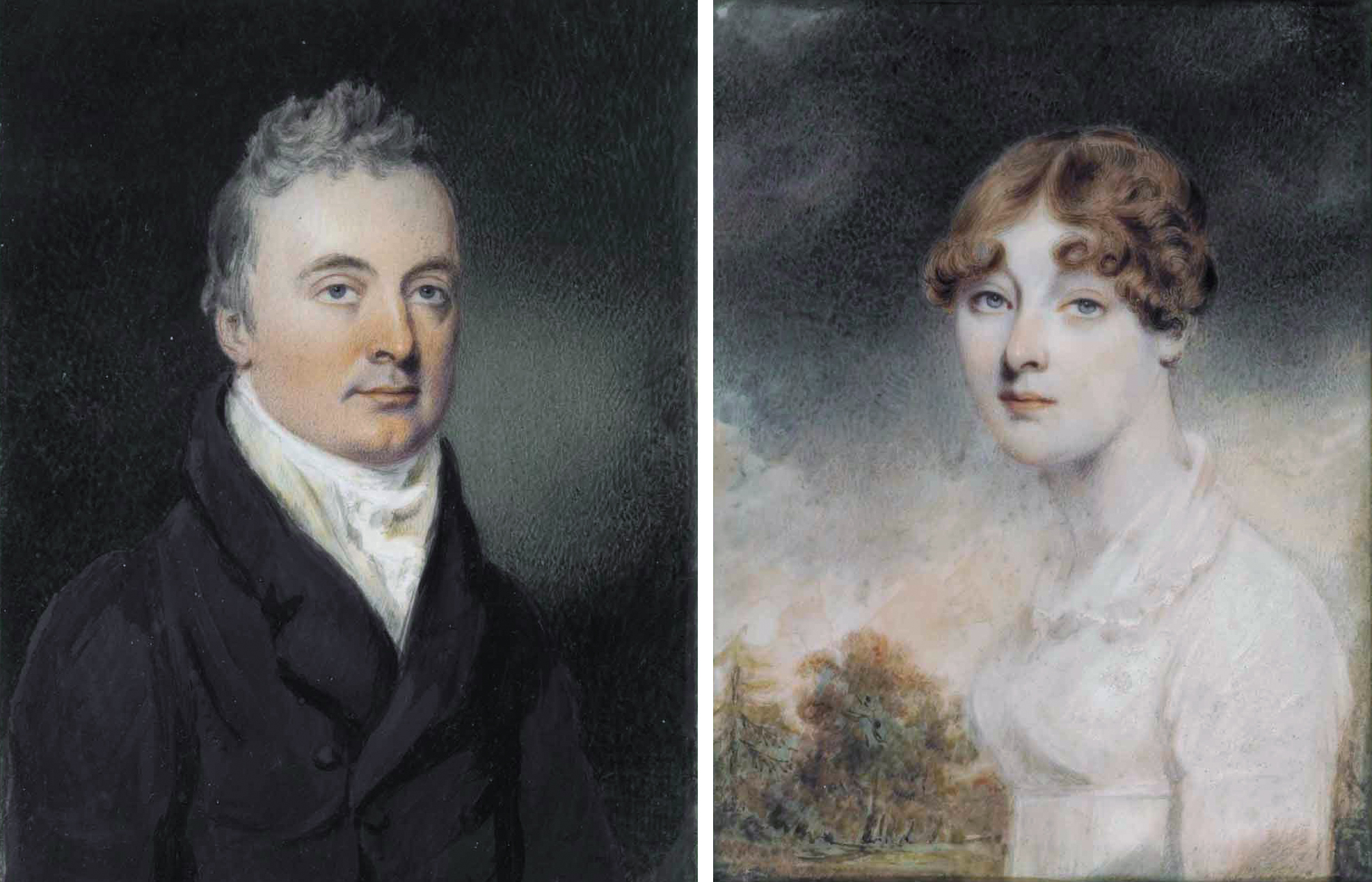 John Osborn, 5th Baronet (1772-1848) and his wife Frederica Osborn, née Davers (d 1870) on ivory 12.1 x 9.3 cm 10.8 x 8.0 cm